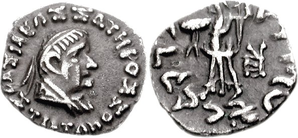 Coin of the Indo-Greek king Strato II